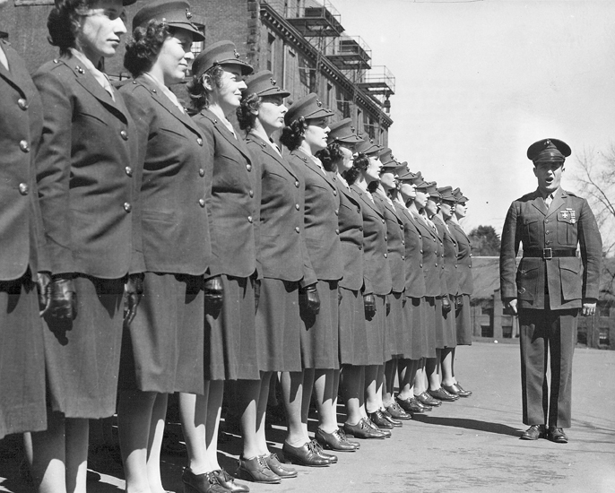 The first group of 71 Women Marine Officer Candidates arrived 13 March 1943 at the U.S. Midshipmen School (Women's Reserve) at Mount Holyoke College in South Hadley, Massachusetts. The Navy's willingness to share training facilities enabled the Marine Corps to begin training Marine Corps Women's Reserve officers just one month after the creation of the MCWR was announced.